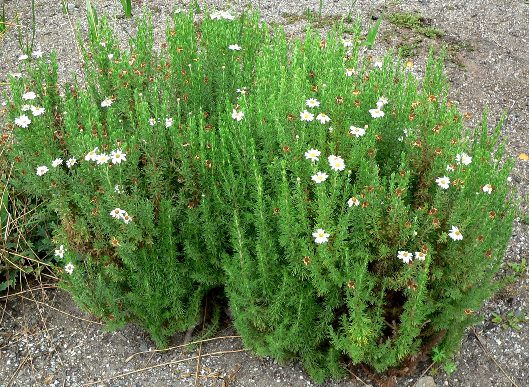 Eumorphia sericea ssp. robustior at the UBC Botanical Garden